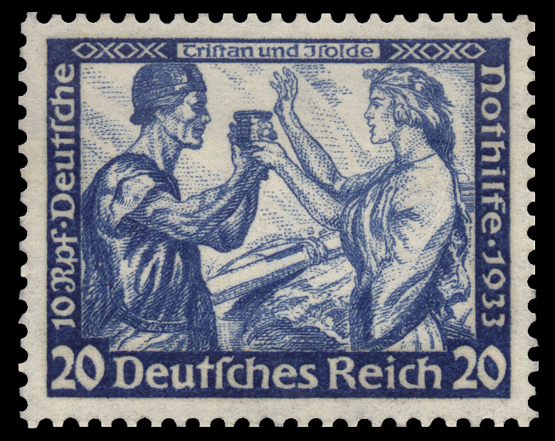 Series for social help with pictures of the work of Richard Wagner Ausgabepreis: 20+10 Reichspfennig First Day of Issue / Erstausgabetag: 1. November 1933 Michel-Katalog-Nr: 505 (Deutsches Reich)